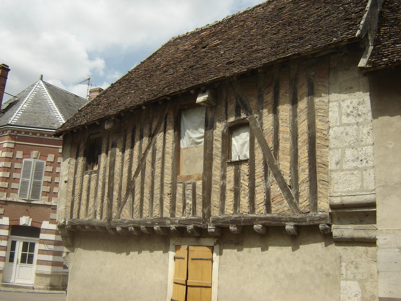 Old house in Boynes, Loiret, France